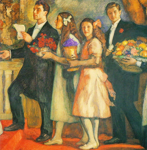 A 1914 painting by Leonid Pasternak of the Pasternak children, left to right: Boris, Josephine, Lydia, Alexander Pasternak. The occasion was their parents' 25th wedding anniversary.